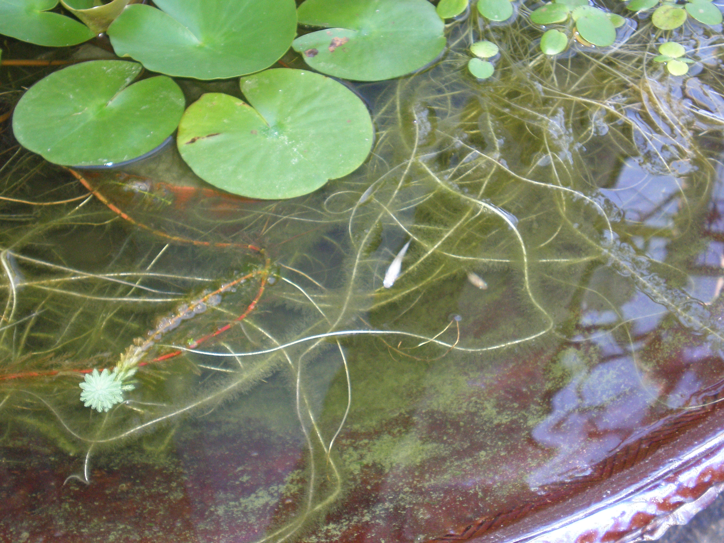 Japanese Killifishs (Medaka, Oryzias latipes) and Aquatic Plants